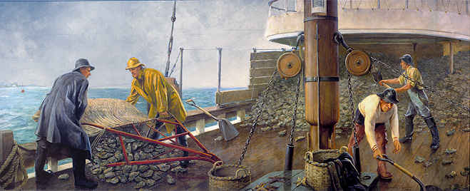 WPA painting by Alexander Rummler. Title: "Dredging For Oysters ". Description: Local oystermen visited the studio when the oystering canvases were being painted. Mr. Rummler thought that Capt. Pettie was the "typical oysterman type", so he is painted here twice..in both the yellow and black slicker...bringing in the dredge.